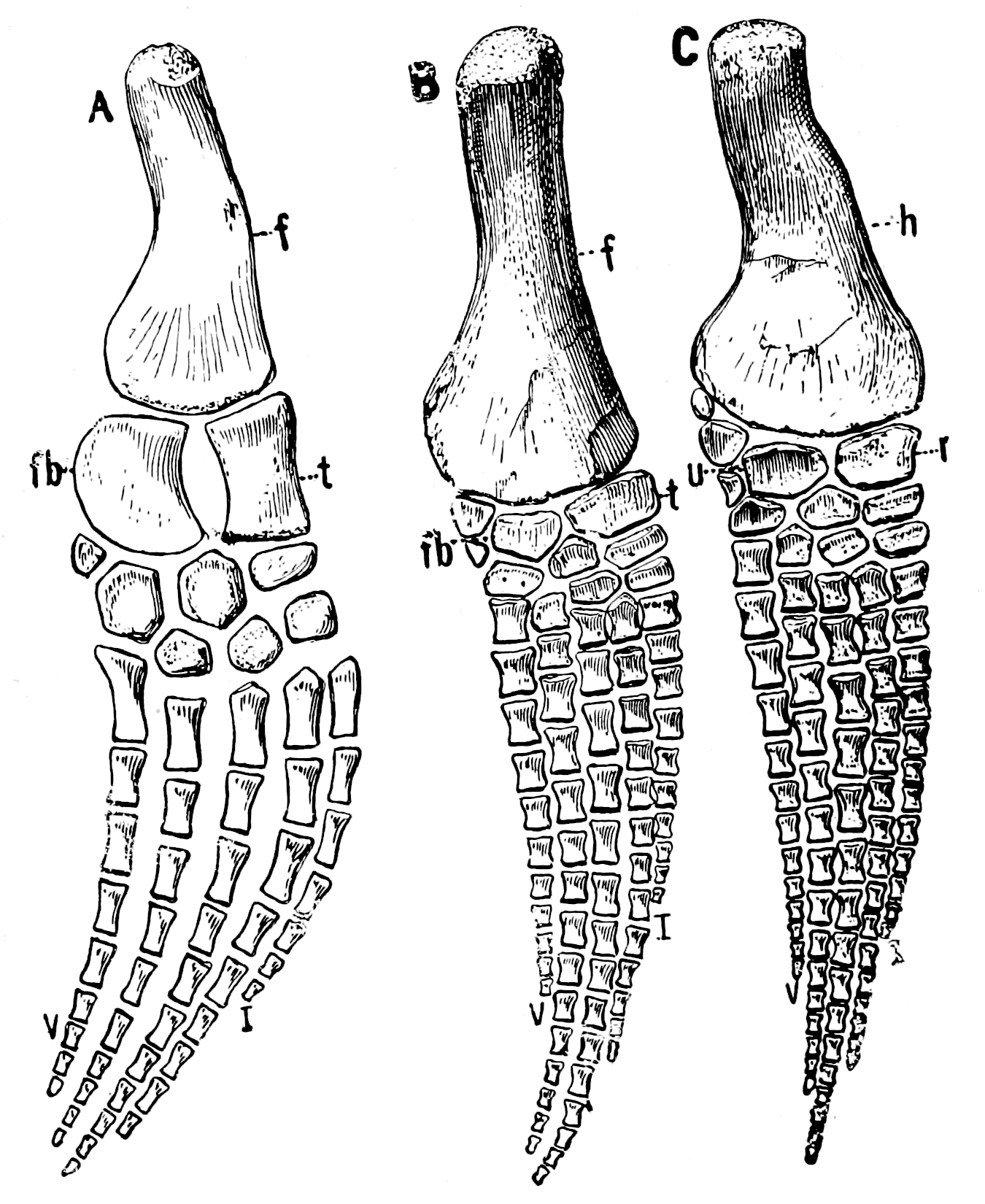 Illustration of Meyerasaurus and Trinacromerum paddles (plesiosaurs) from The Osteology of the Reptiles (1925)